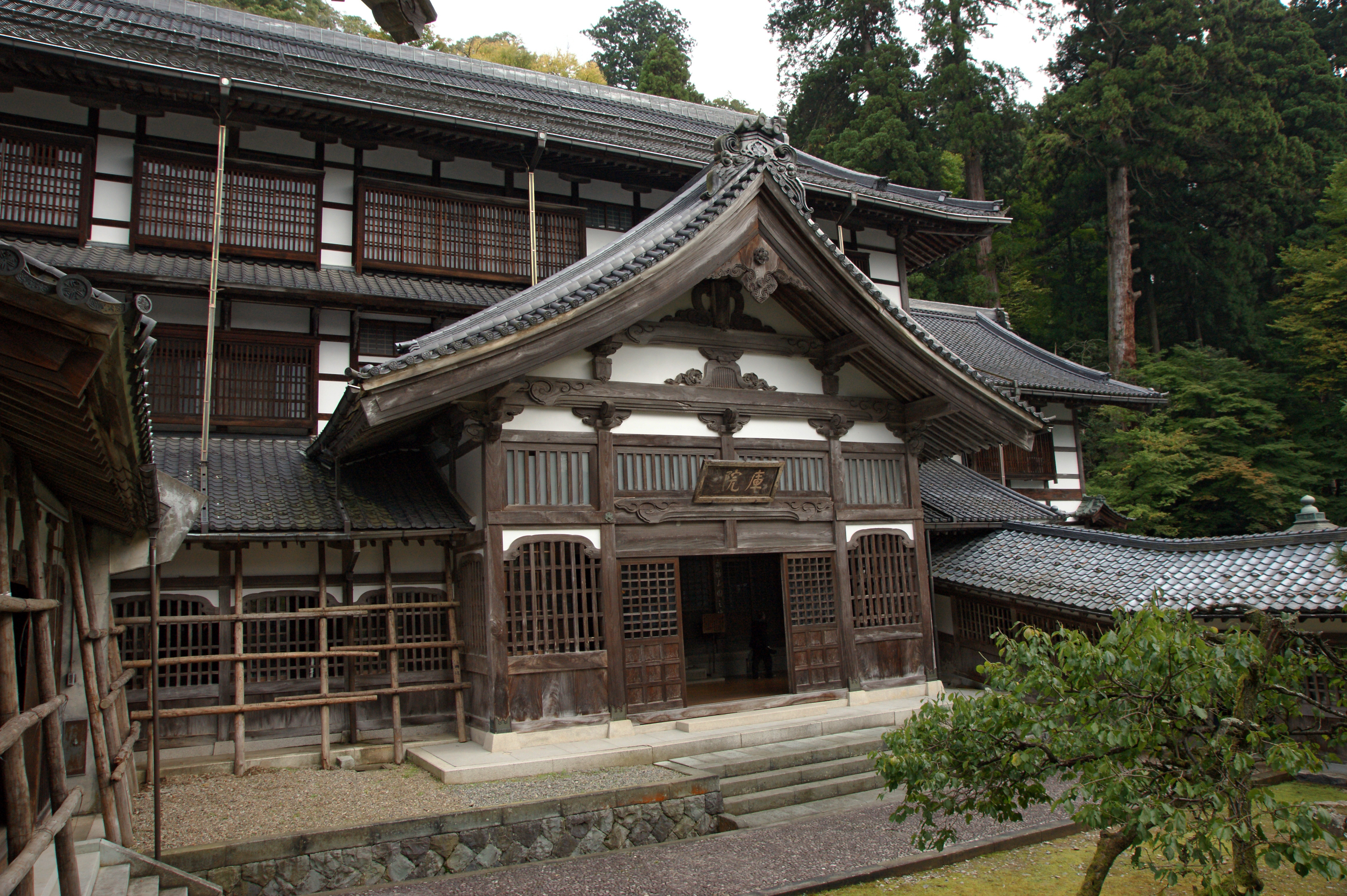 Eiheiji, Eiheiji, Fukui prefecture, Japan